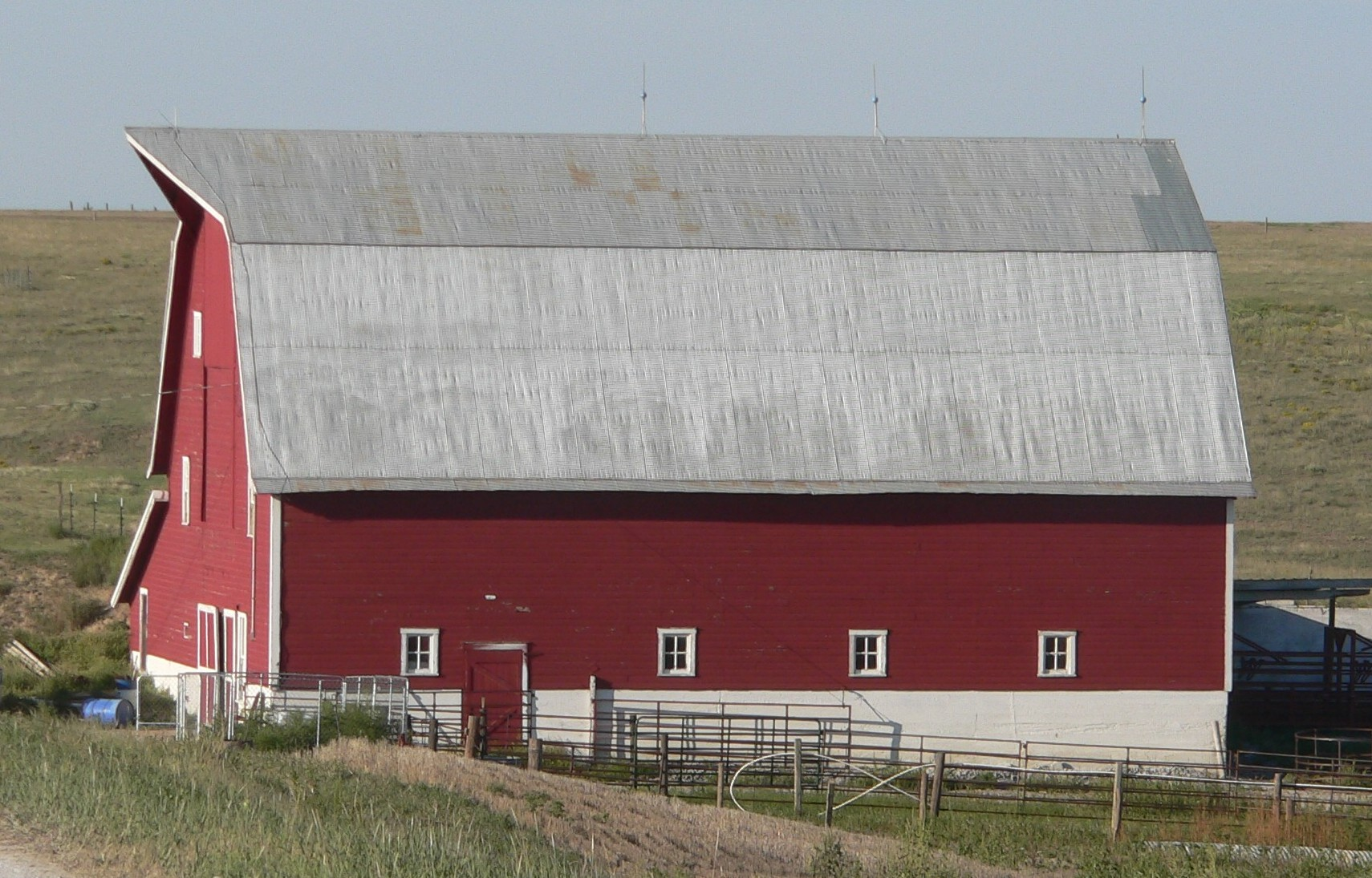 Shafer barn, located north of county road 50S about half a mile east of county road 80E in rural Sheridan County, Kansas; seen from the south.